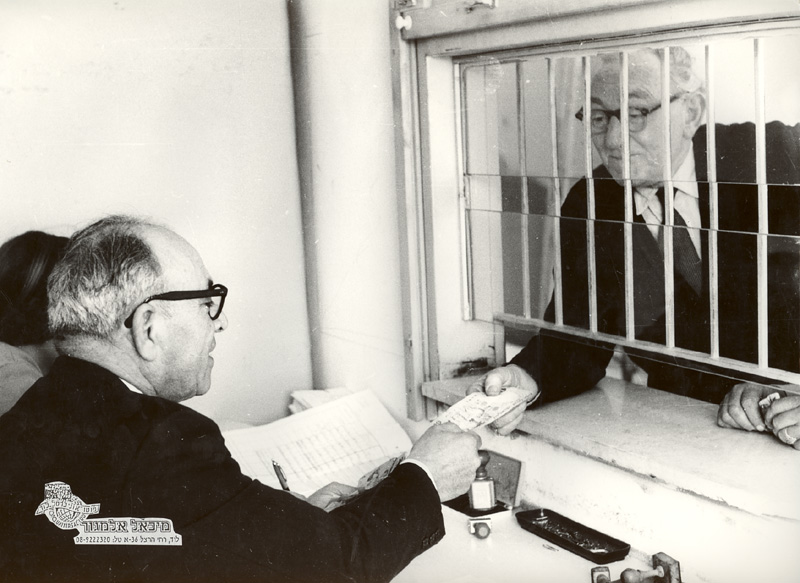 Tax Paying, Cities in Israel